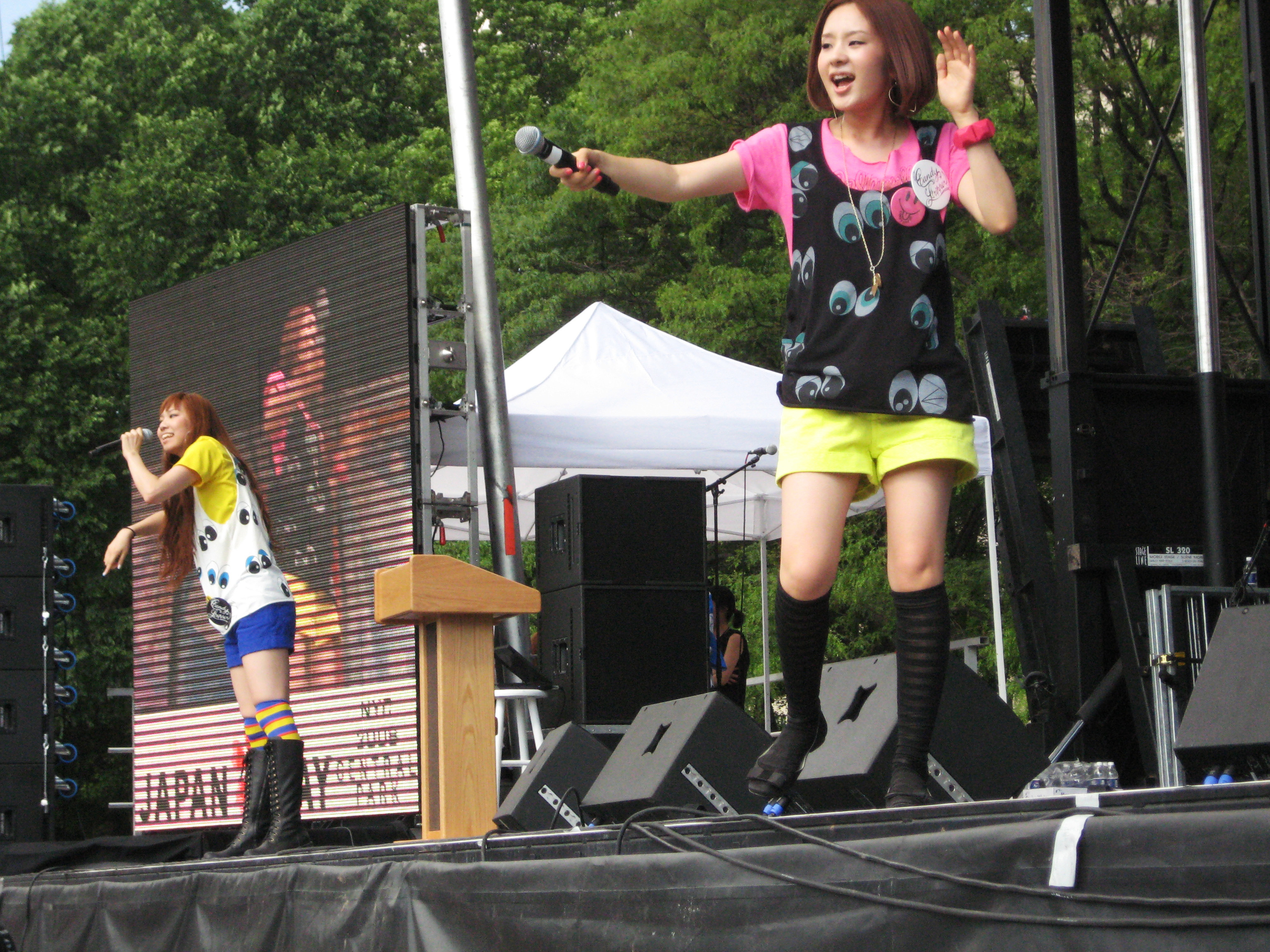 HALCALI live at Japan Day in Central Park, New York City.